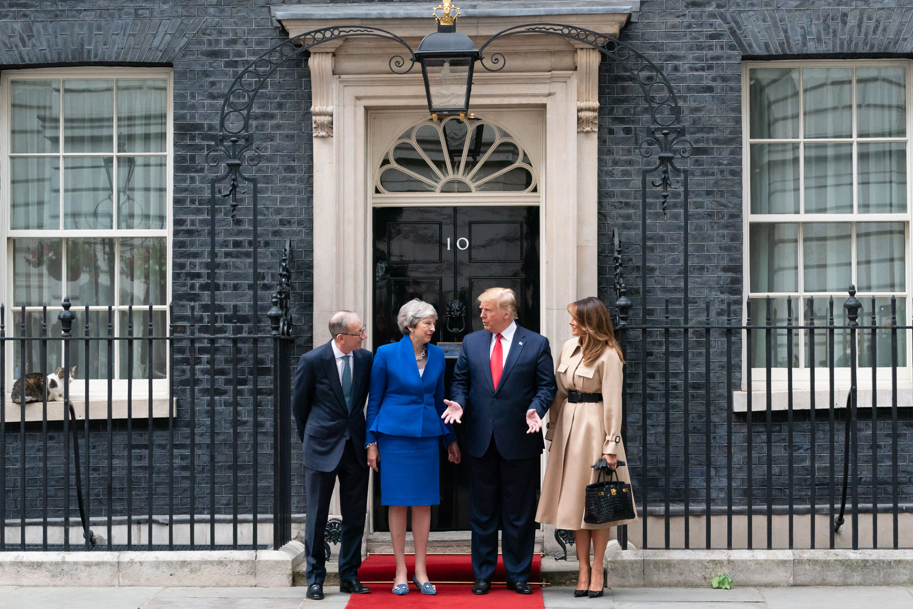 President Donald J. Trump and First Lady Melania Trump greet British Prime Minister Theresa May and her husband Mr. Philip May Tuesday, June 4, 2019, at No. 10 Downing Street in London. (Official White House Photo by Andrea Hanks) This photograph is notable in that the chief mouser Larry, is photobombing the picture by sitting on the lefthand window ledge.